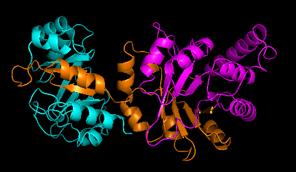 pymol of enzyme